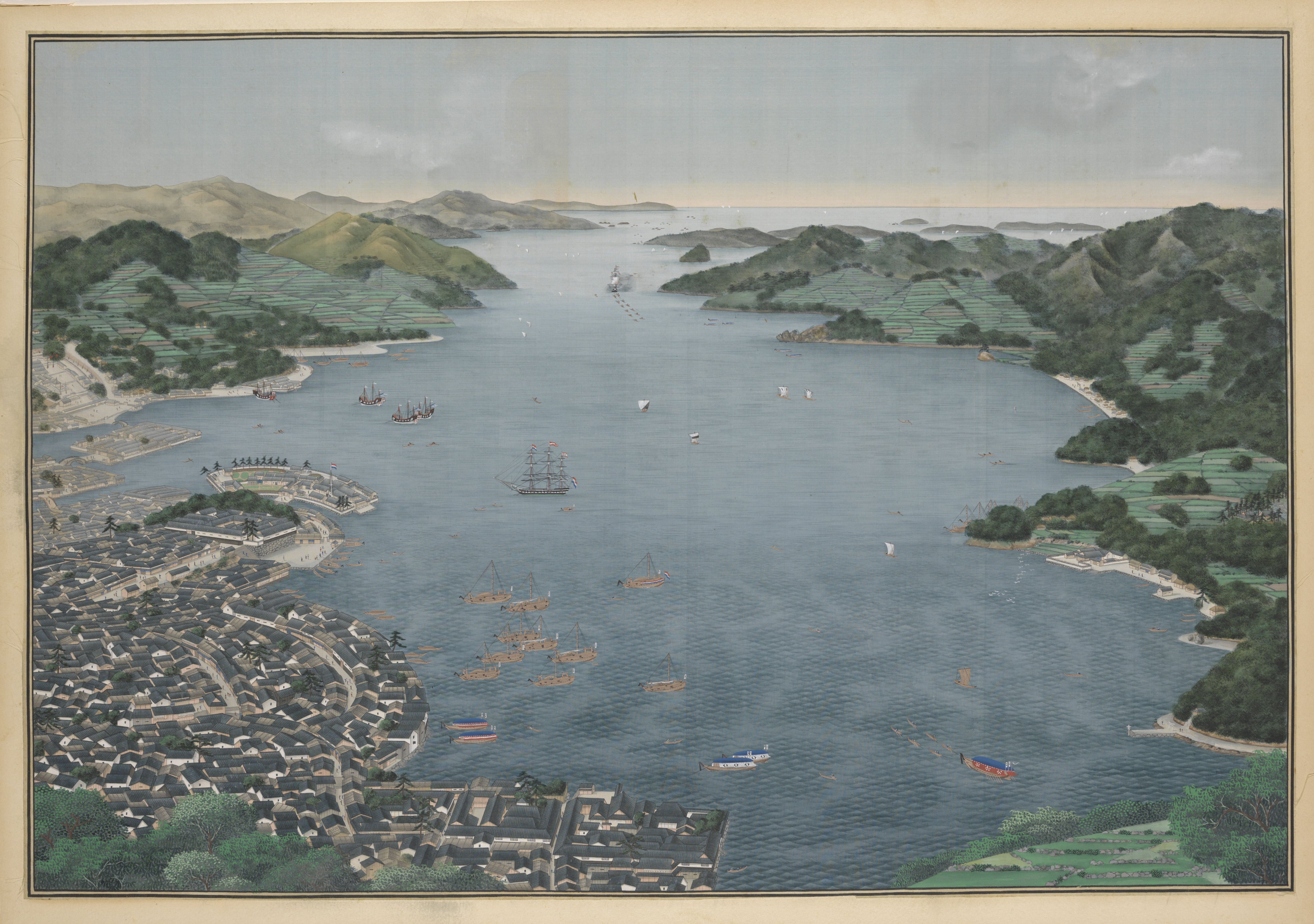 Silk painting of Nagasaki harbour from the workshop of Kawahara Keiga (75.5 × 48.6 cm). It shows the Dutch trading post on Deshima (crescent-shaped island) and to the left of it the rectangular Chinese trading post.